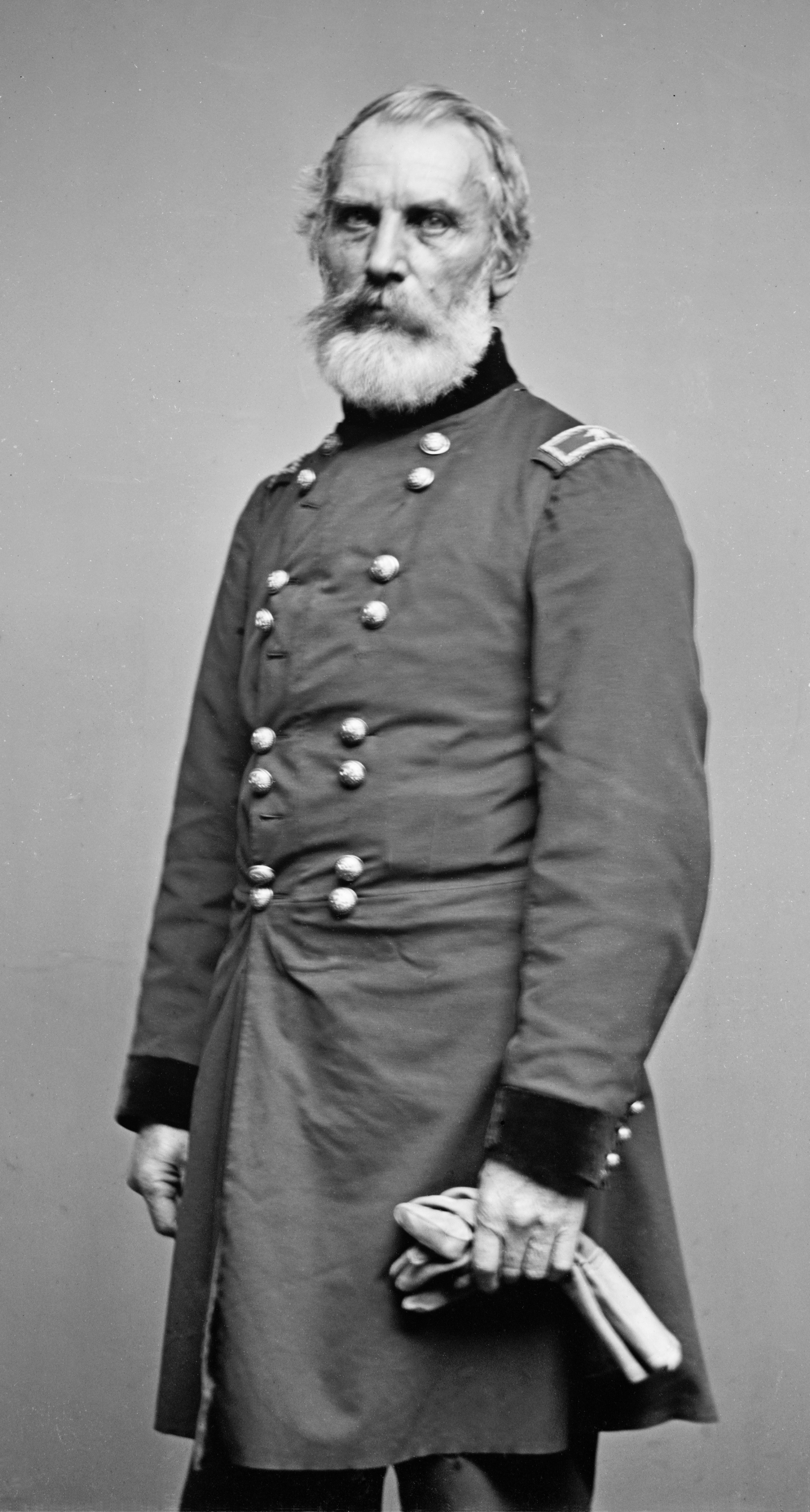 John Joseph Abercrombie. Library of Congress description: "Genl. Abercrombie"